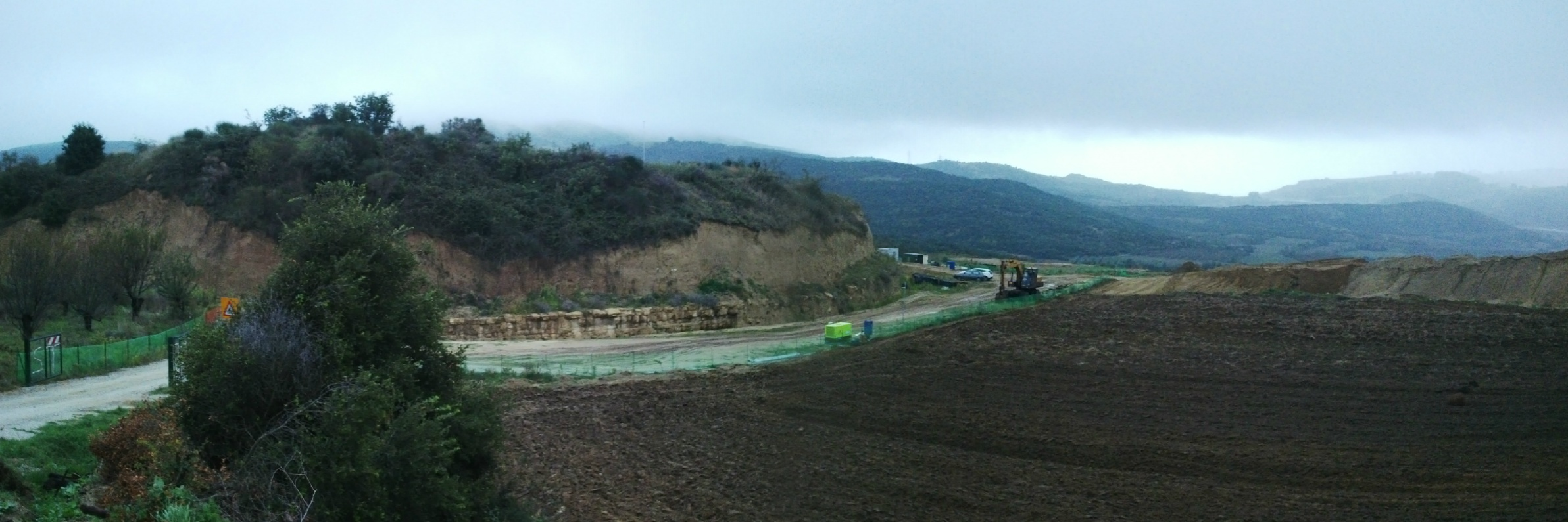 Photograph of the Kasta tumulus from the North-North West. On the right a small hill has been formed with soil removed from the tumulus, as part of the excavations. The photograph has been composed from two other photographs.